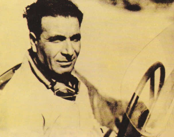 Italian racecar driver Clemente Biondetti at the Mille Miglia in Italy on 3 April 1938. Which he won with co-driver Stefani in an Alfa Romeo 8C 2900 Spider MM by Touring for the "Alfa Corse" racing team.[1]